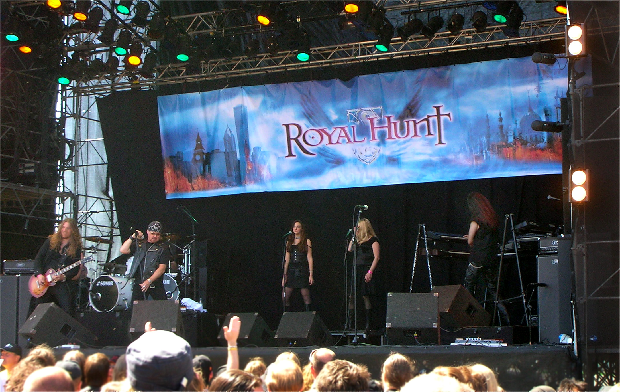 Danish metal band Royal Hunt performing at the Sweden Rock Festival in 2008